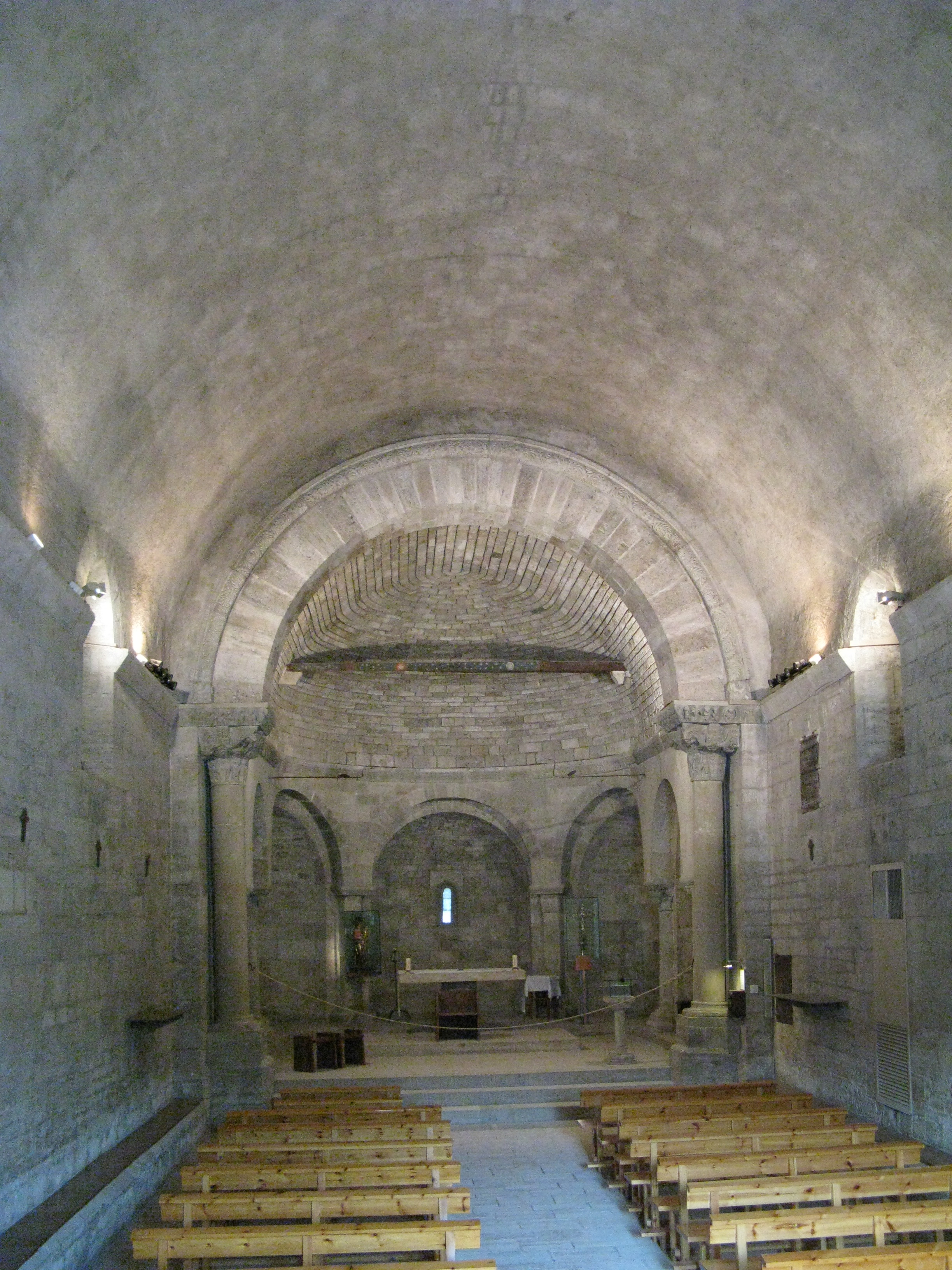 Nave of the romanesque church Santa Maria de Porqueres, Catalonia